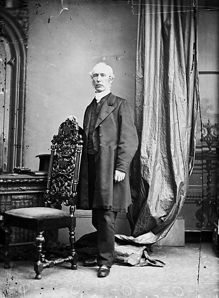 1 negative : glass, wet collodion, b&w ; 11 x 16.5 cm.